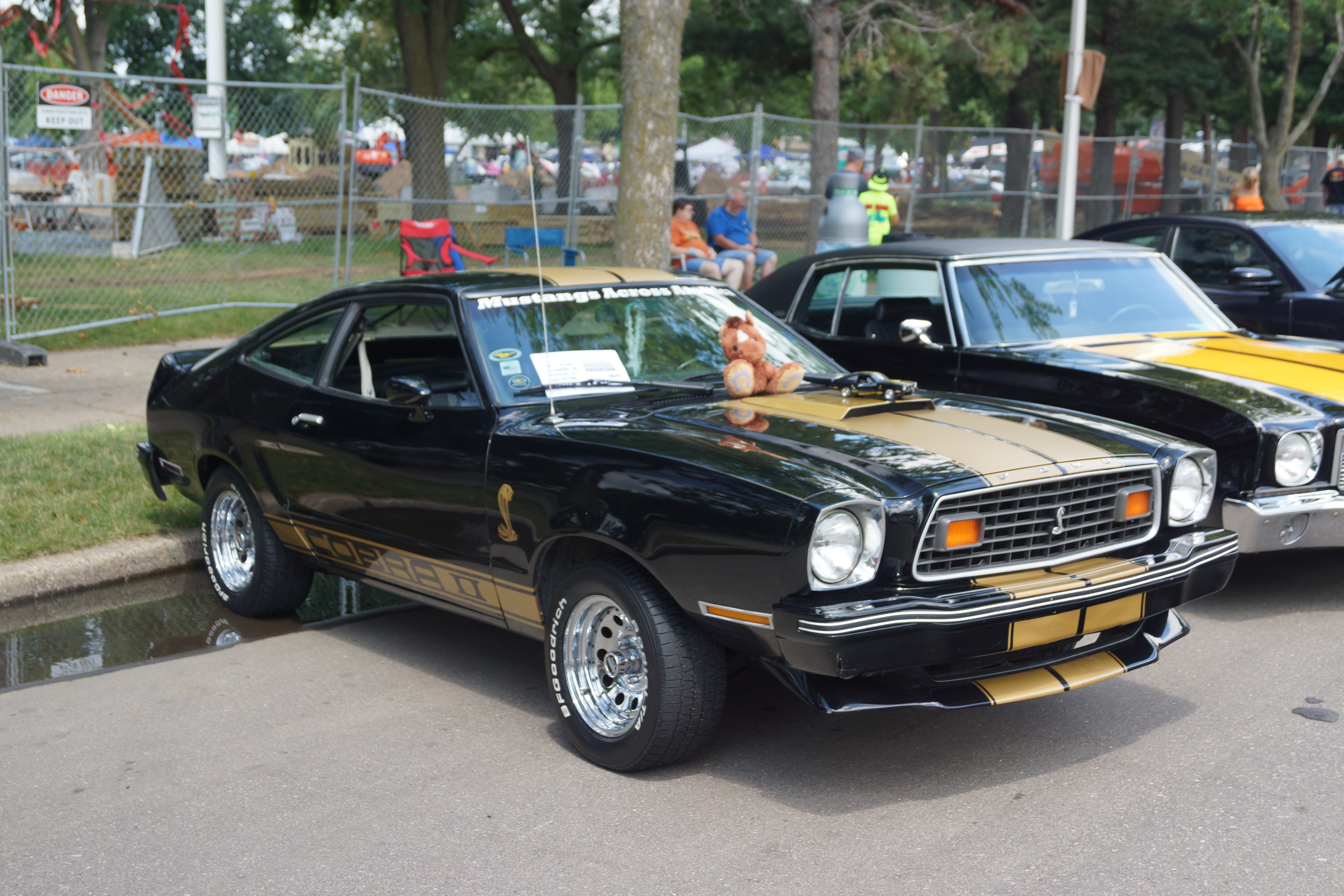 Click here for more car pictures at my Flickr site. O'Reilly Auto Parts Street Machine Summer Nationals Minnesota State Fairgrounds St. Paul, Minnesota July 2016